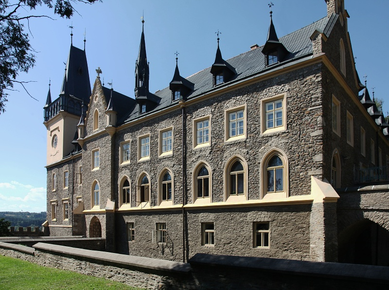 Zruc nad Sazavou - castle. The town in mid Bohemia, close to Sazava river, Czech Republic